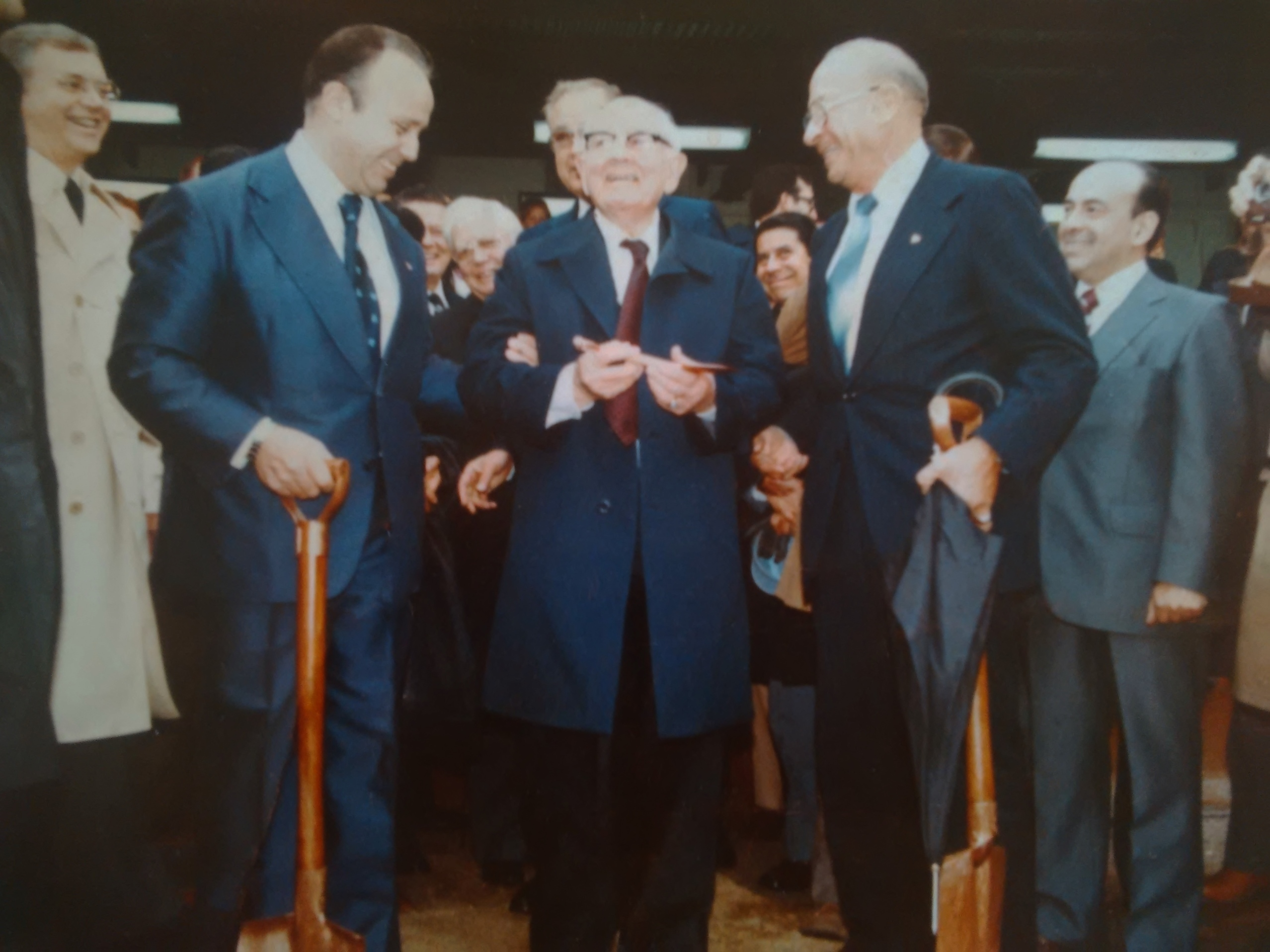 Groundbreaking for the Santiago Chile Temple of The Church of Jesus Christ of Latter-day Saints. People pictured include Spencer W. Kimball and Carlos A. Cifuentes